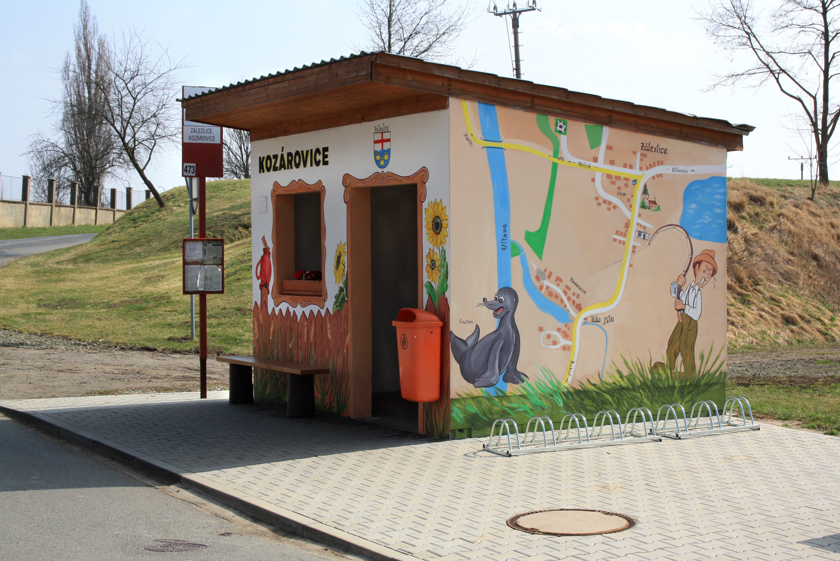 Bus shelter in Kozárovice, part of Zálezlice village, Czech Republic